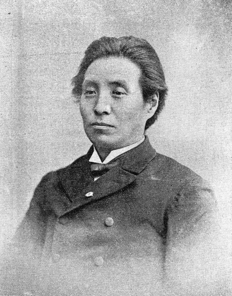 Kōmuchi Tomotsune, the President of the Legislative Bureau